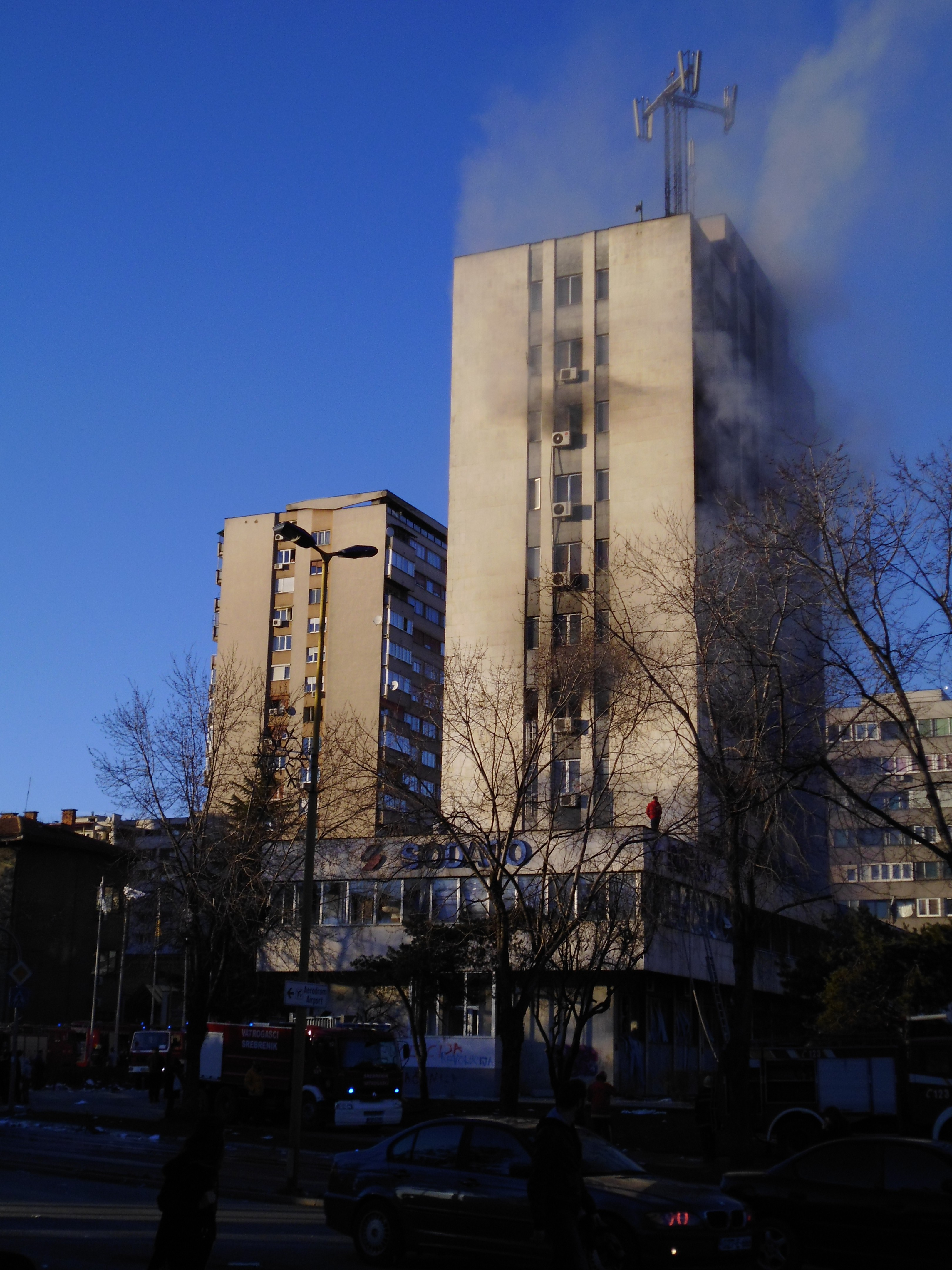 Government Building of Tuzla Canton burning